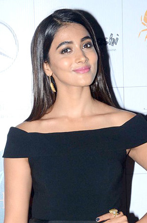 Pooja Hegde snapped when graced the Four Seasons new lounge launch 2 in 2017